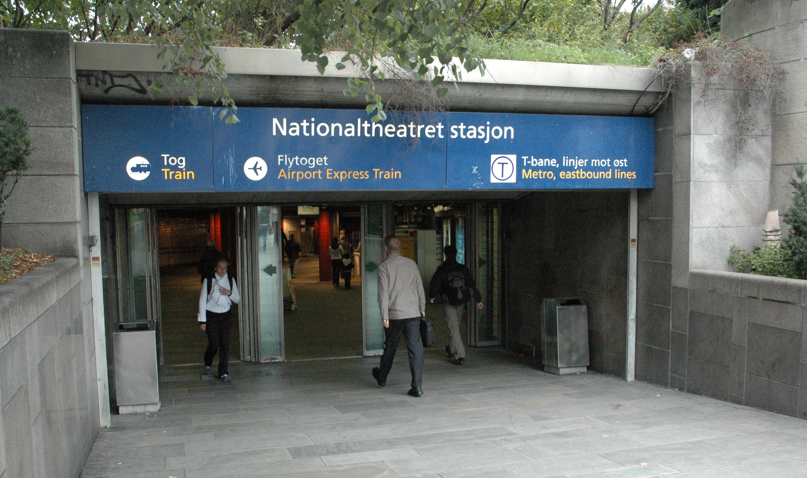 The entrance of Nationaltheatret metro station, Oslo, Norway.